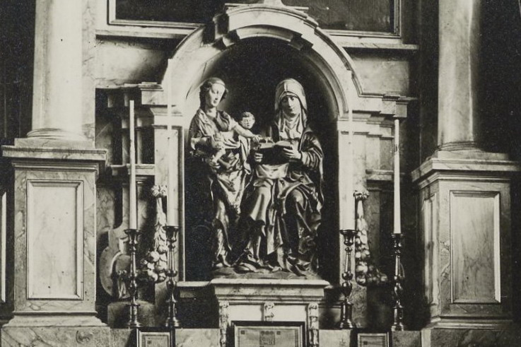 Elsloo, Limburg, the Netherlands. Detail of an altar with a late-Medieval statue of the Madonna with Child and Saint Anne (Sint Anna te Drieën). In 1940, Dutch art historian Joseph Timmers attributed the statue to the Master of Elsloo, a notname that he invented. In the decades thereafter dozens of statues were attributed to this master wood carver or his studio.